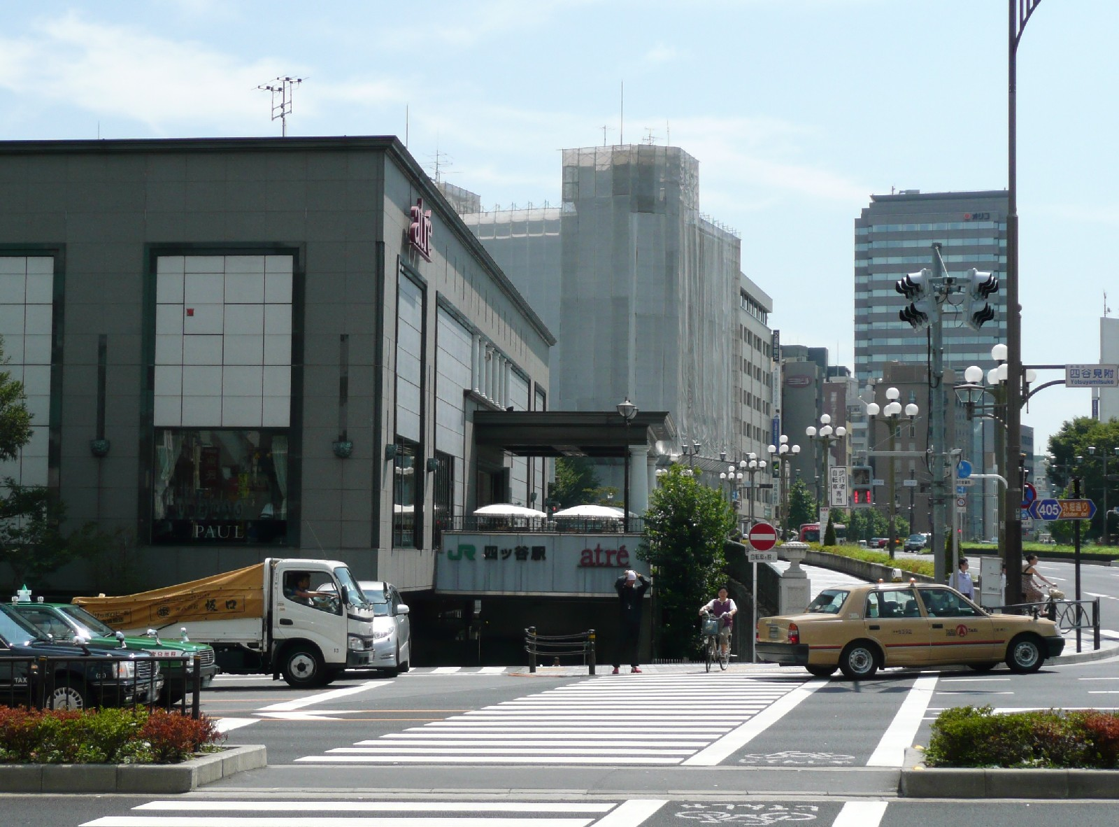 Yotsuya entrance of Yotsuya Station in Tokyo